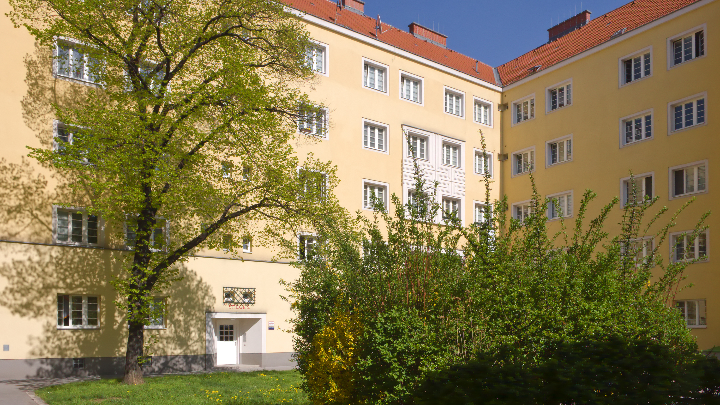 Residential building Karl-Höger-Hof in Vienna Simmering